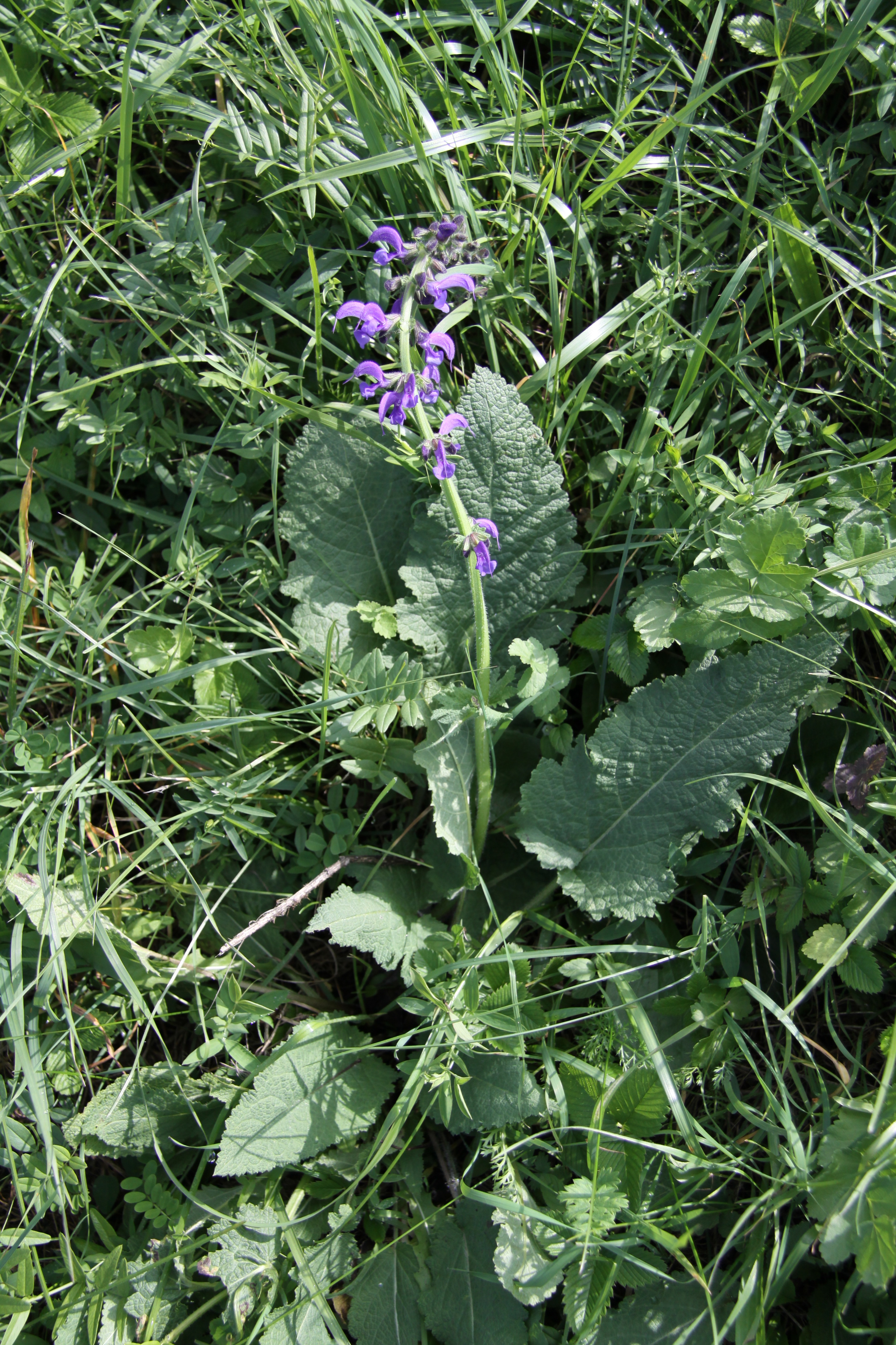 Sclarea pratensis in natural monument Syslí louky u Loděnice near Loděnice village, Beroun District, Czech Republic Project: Chráněná území